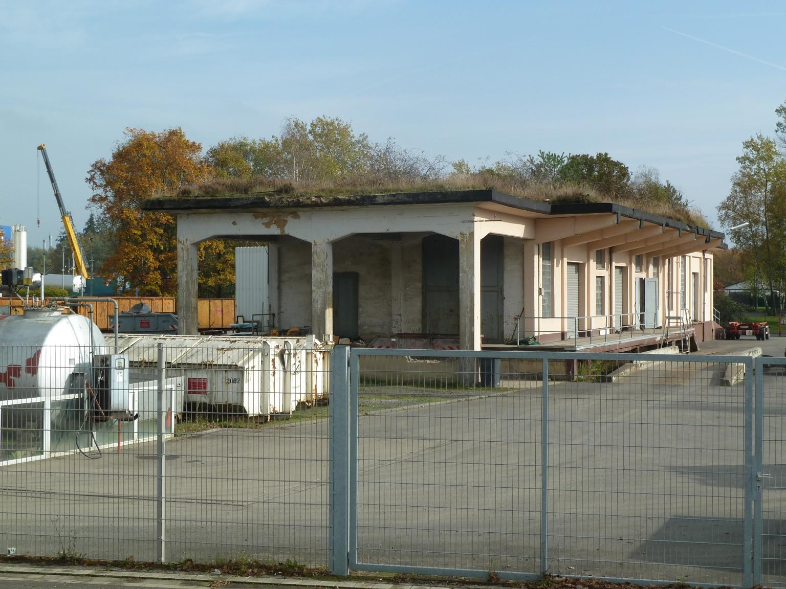 Former storehouse in the Allendorf explosives factory.